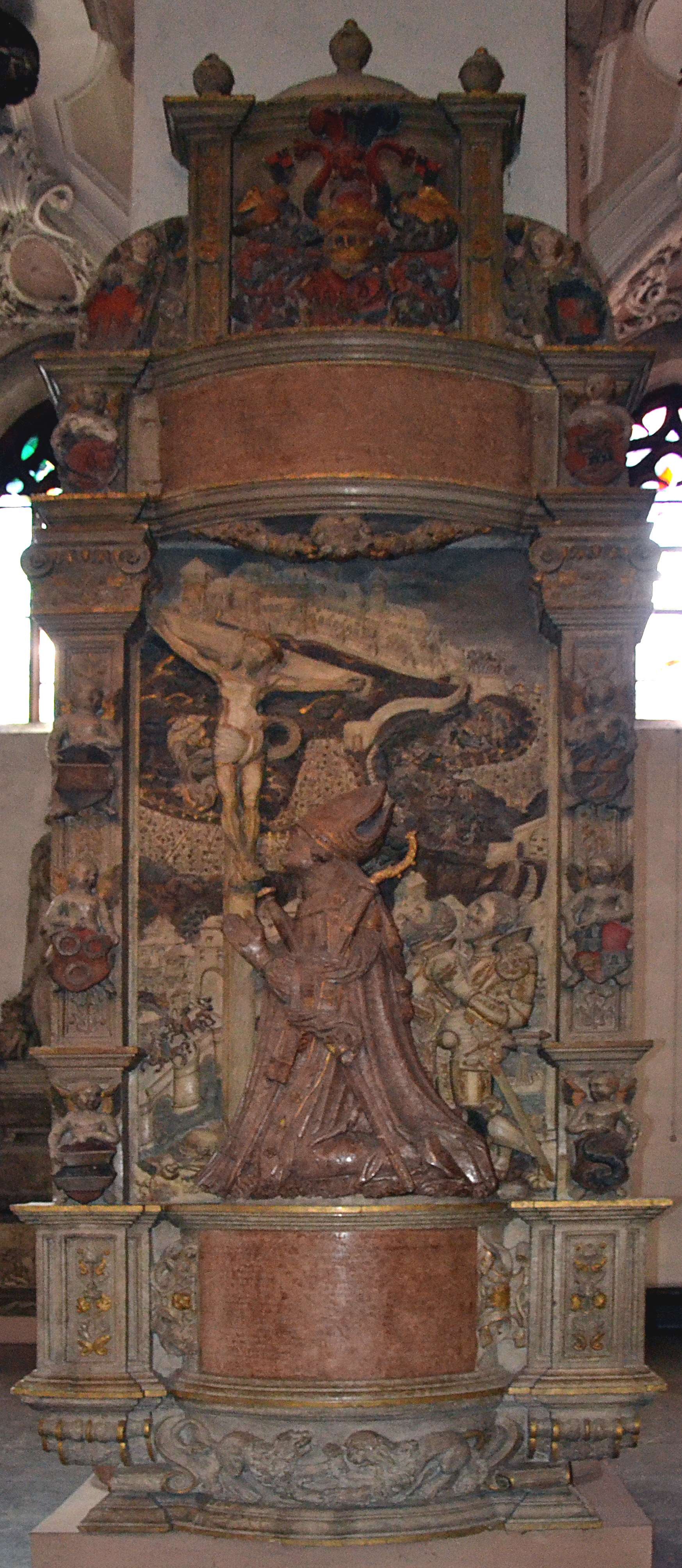 Melchior Zobel von Giebelstadt grave in Wurzburg Cathedral